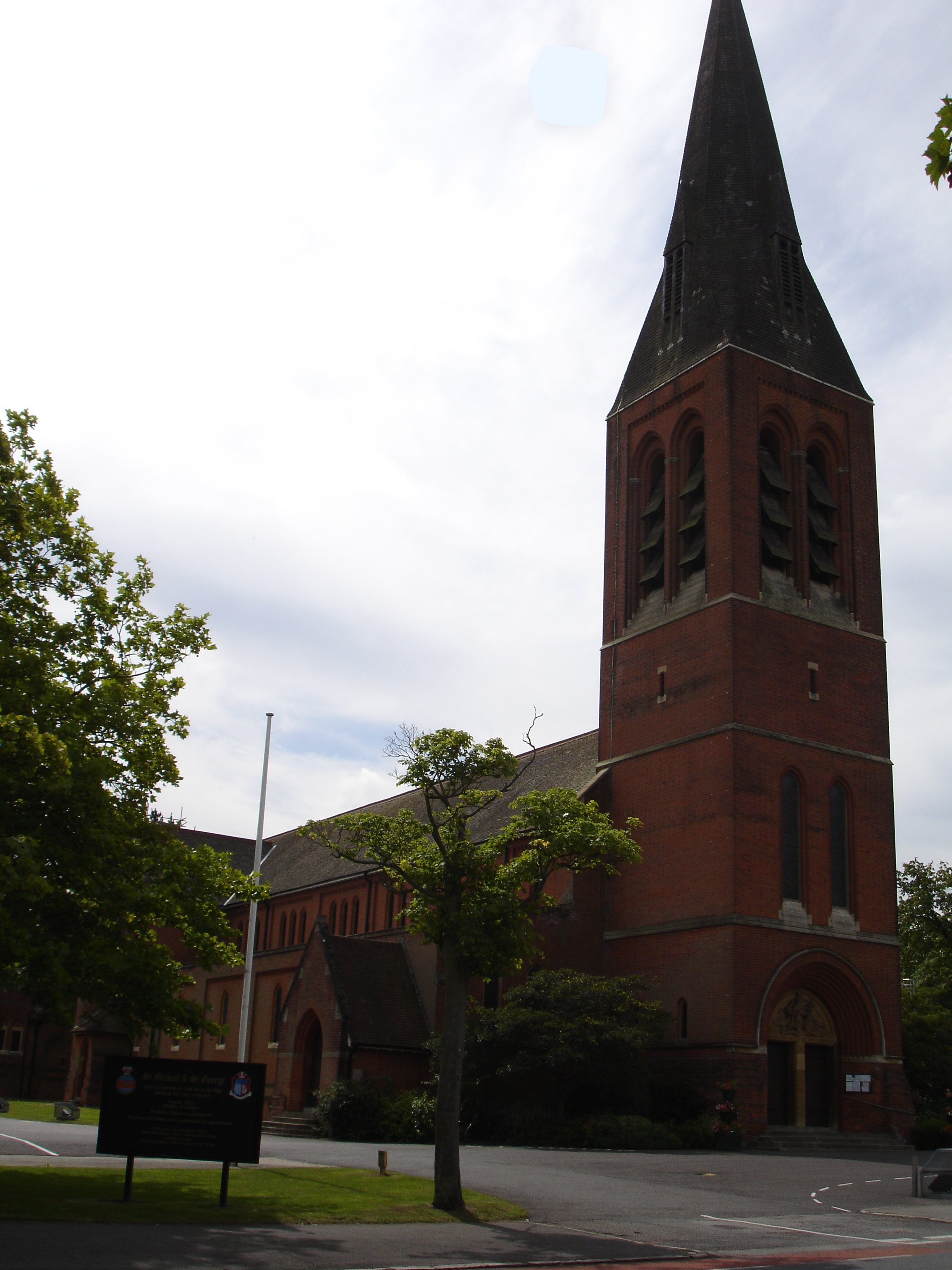 Roman Catholic cathedral of SS Michael and George, seat of the Bishop of the Armed Forces, Aldershot, Hampshire, England, seen from the north